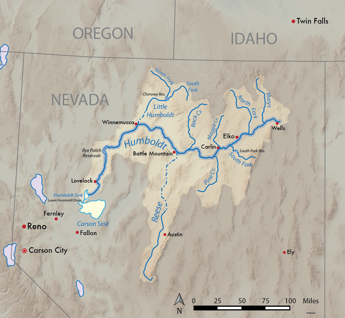 Map showing the Humboldt River in Nevada, USA. Intended to replace an earlier map also drawn by myself. Shaded relief data from US Geological Survey.